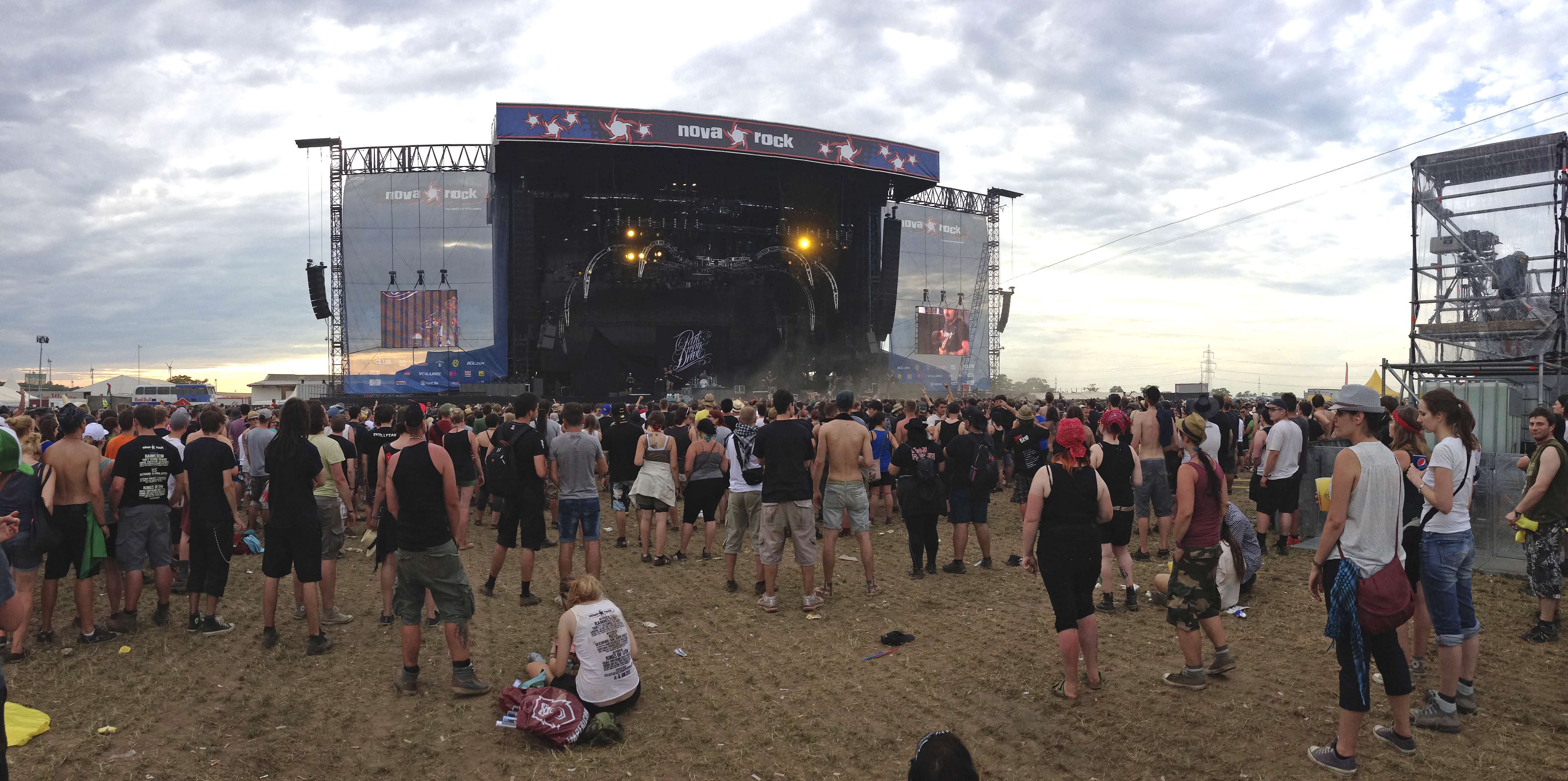 The biggest stage, the Blue-Stage of Nova Rock-Festival 2013 near Nickelsdorf (Austria).